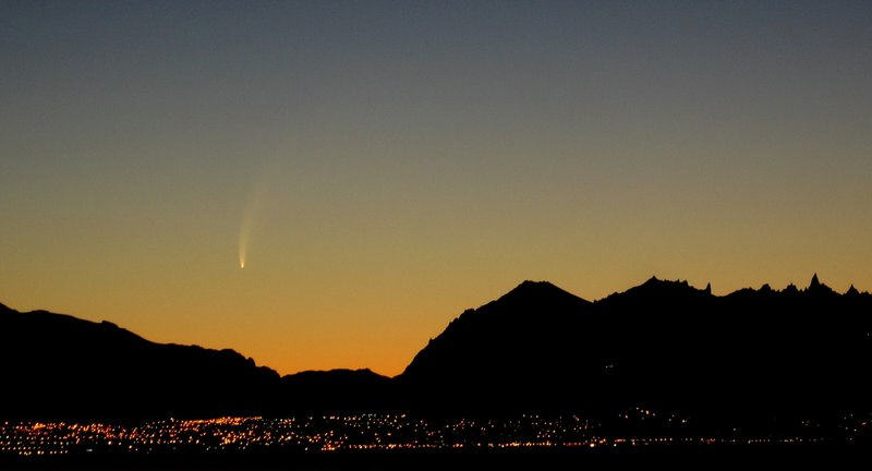 Comet McNaught, setting behind the city of Bariloche, Argentina, and the Andes mountains.